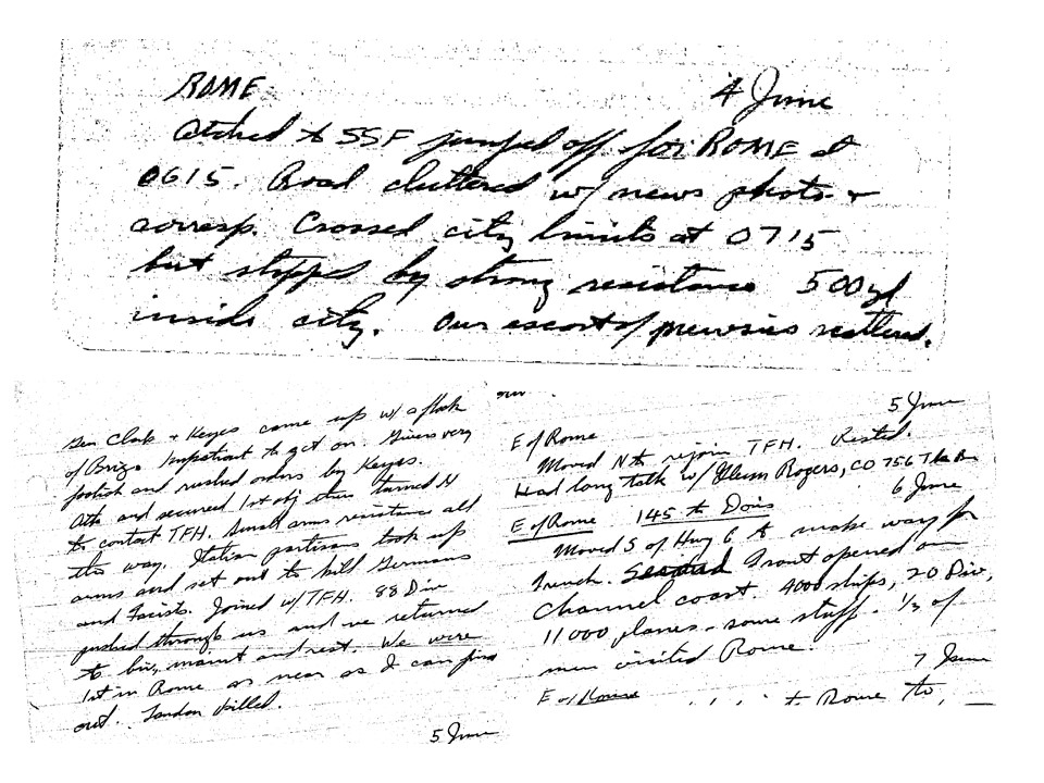 Notes from Cairns' WWII battlefield diary.